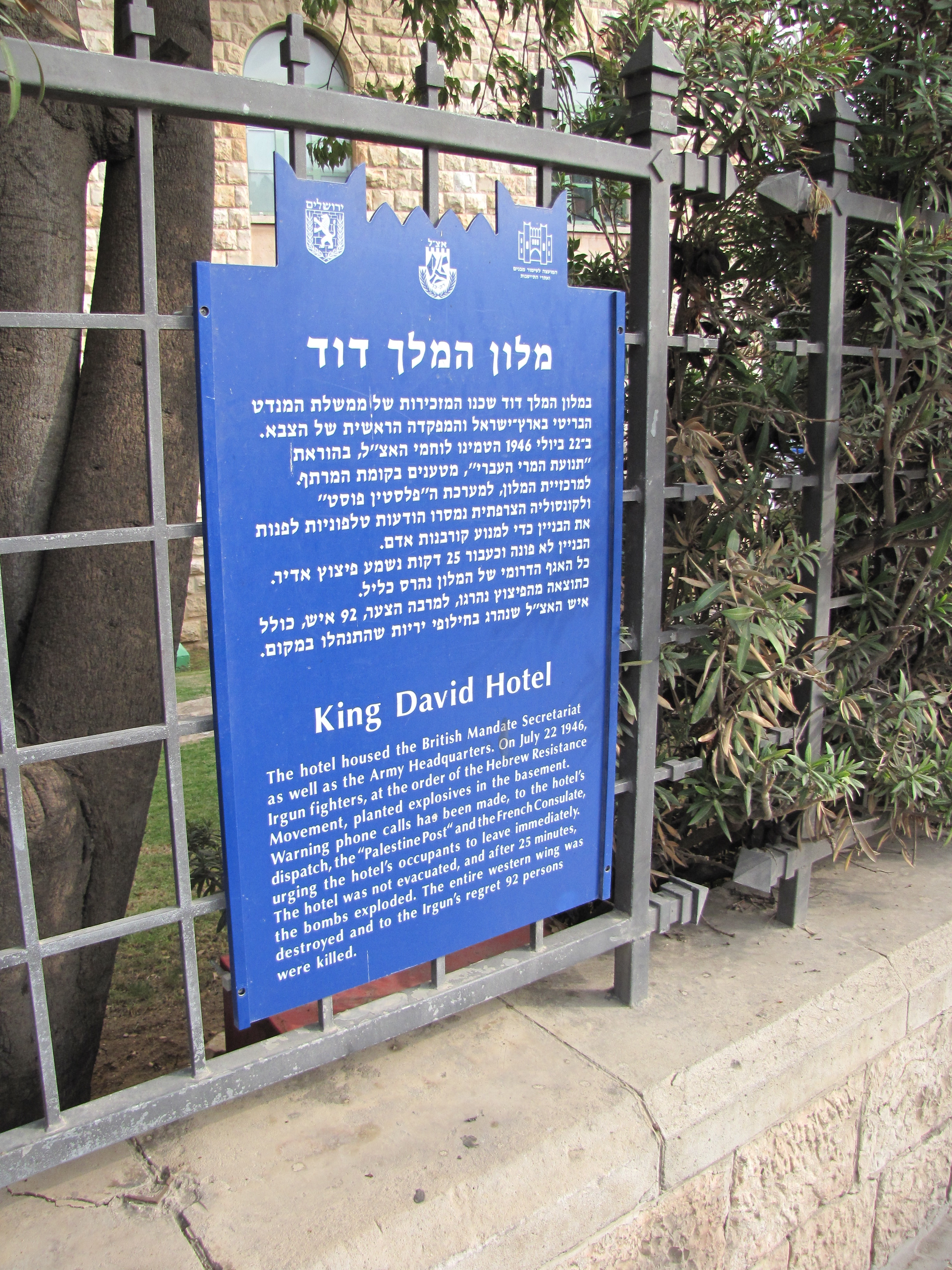 Two of the three folks behind this became Israeli leaders. Very carefully worded...